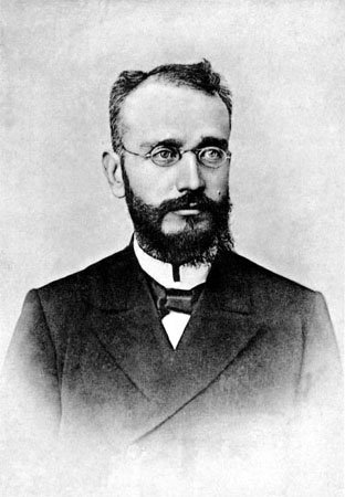 Eleftherios Venizelos at the very beginning of the 20th century